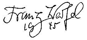 Signature of Austrian author Franz Werfel